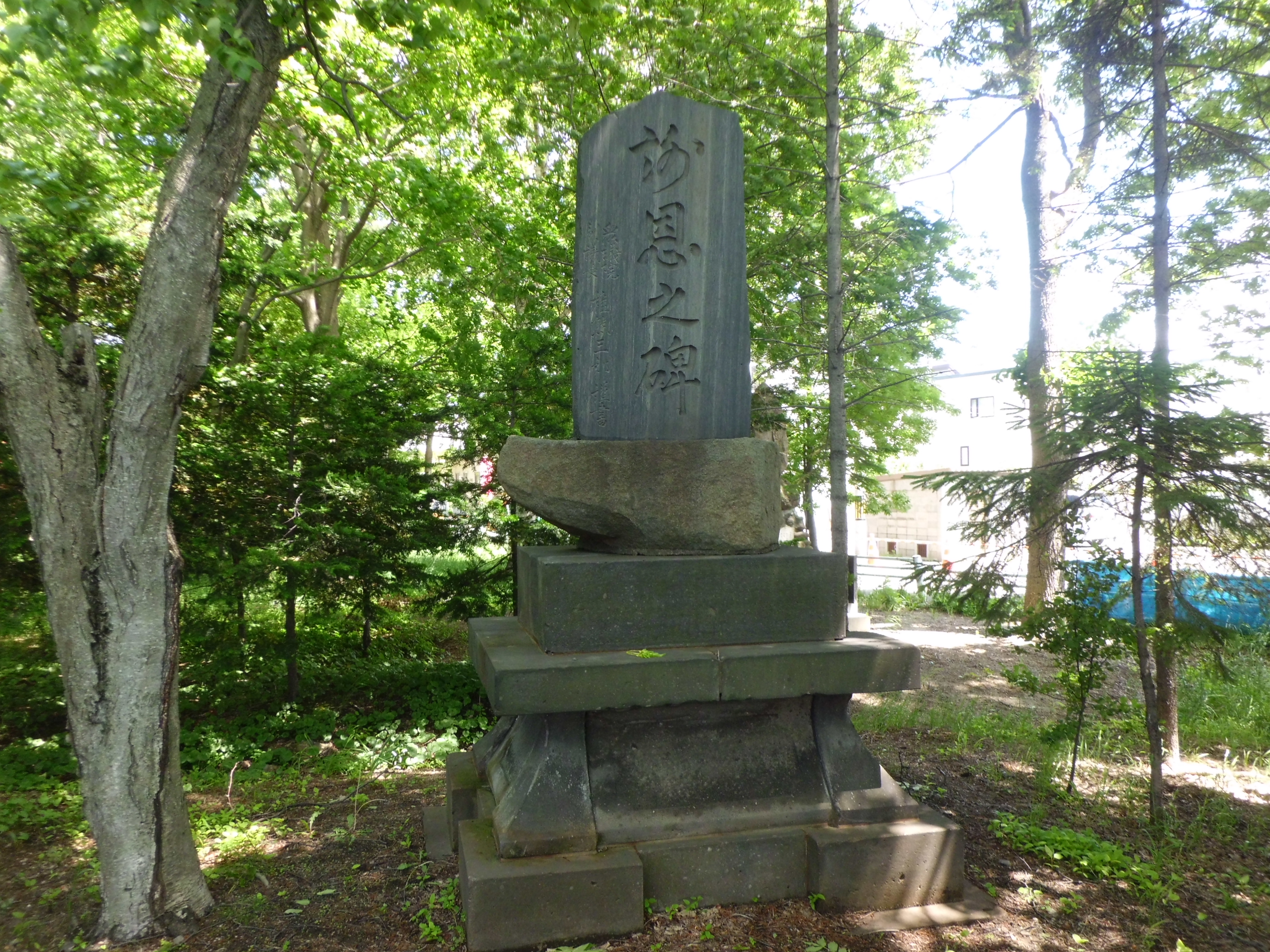 Monument of Thanks to Kozo Yamamoto